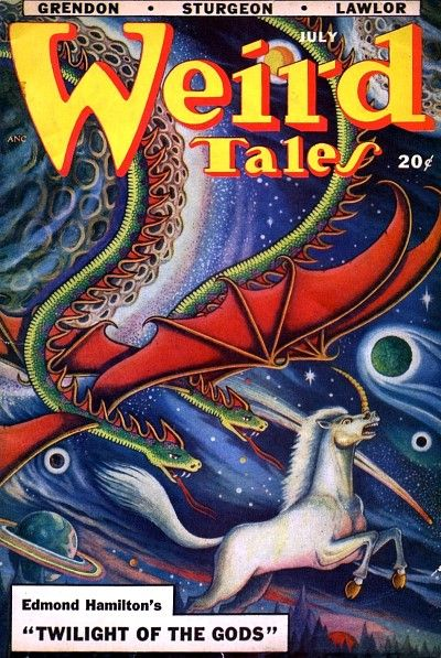 Cover of the pulp magazine Weird Tales, July 1948